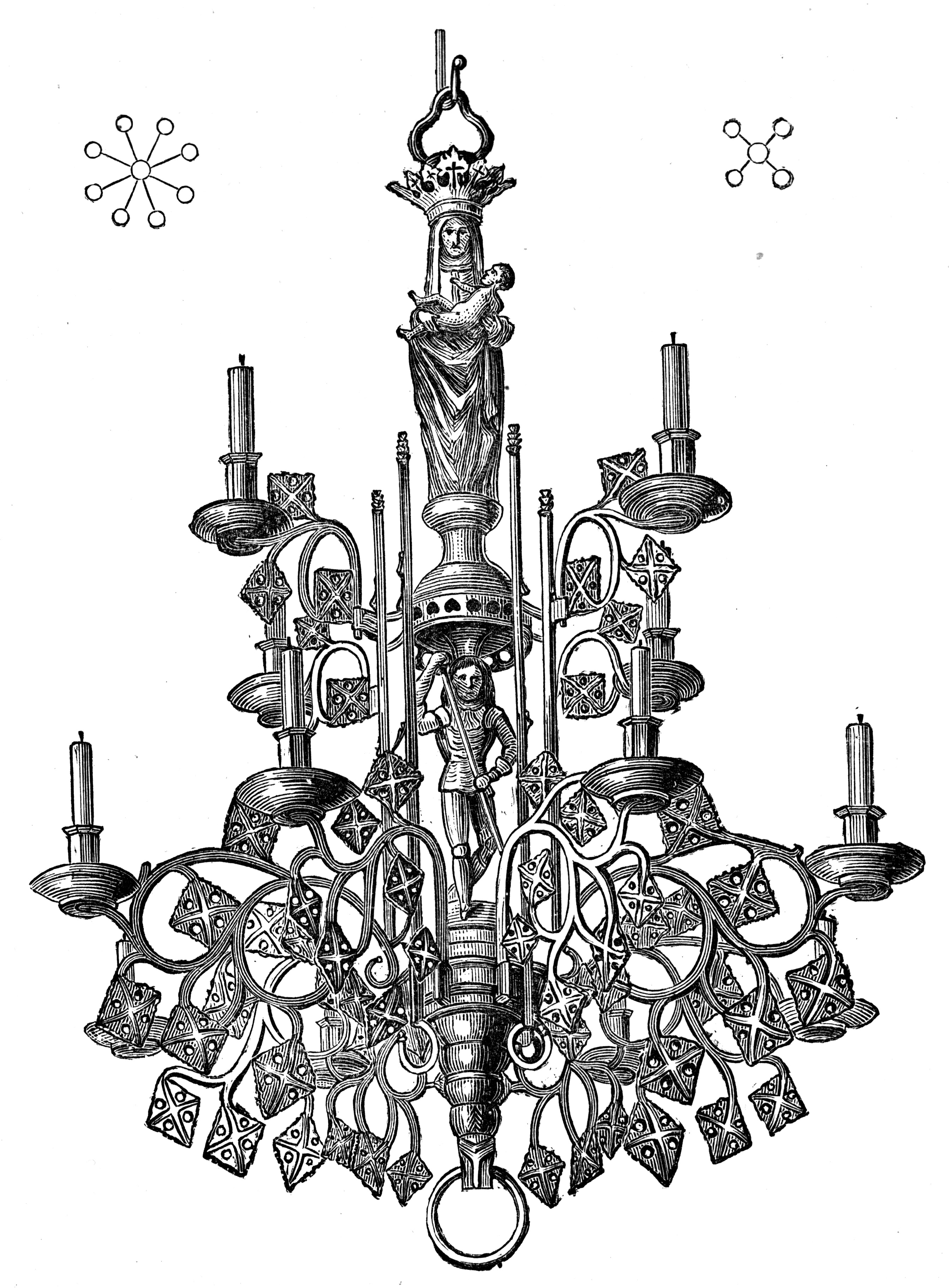 Candelabrum in Temple Church